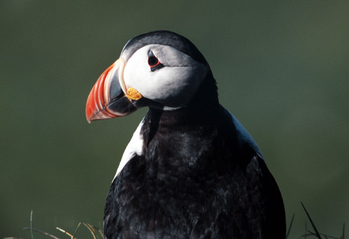 Atlantic puffin Fratercula arctica Image taken at Roest, Lofoten, Norway